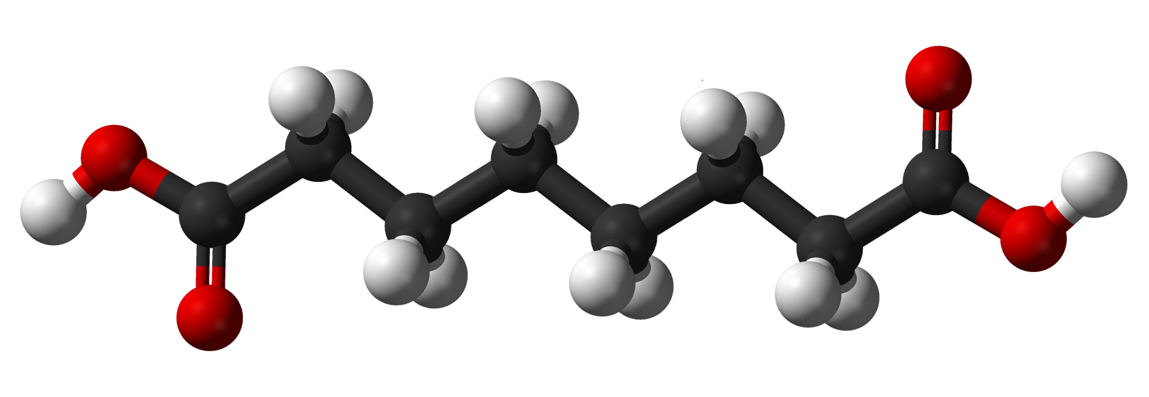 Ball and stick model of the suberic acid molecule.